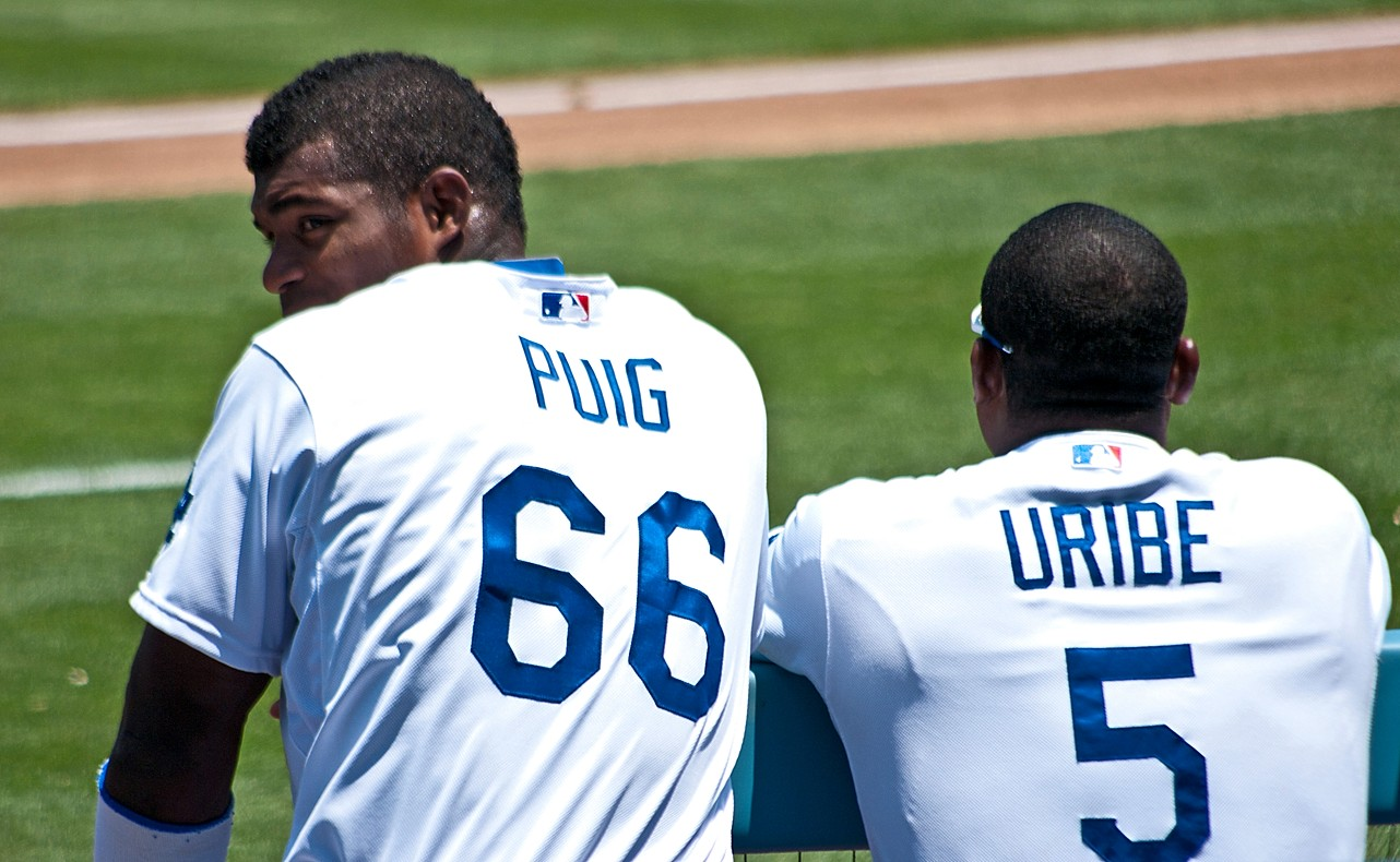 Yasiel Puig & Juan Uribe in the Dodger dugout